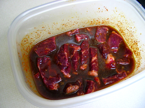 Marinated Korean BBQ